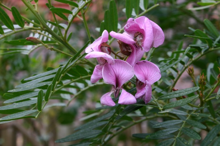 A Blossom tree at Nature's Valley, Western Cape, South Africa